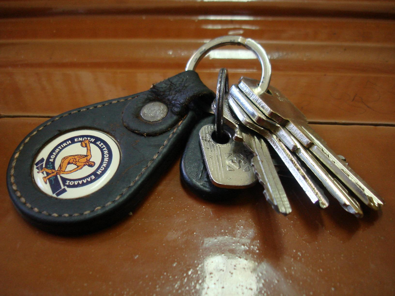 A leather keychain